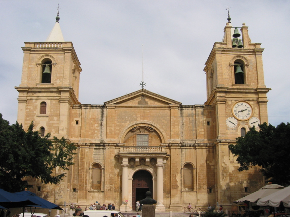 "Magnificent church, the most striking interior I have ever seen." Sir Walter Scott, 1831.